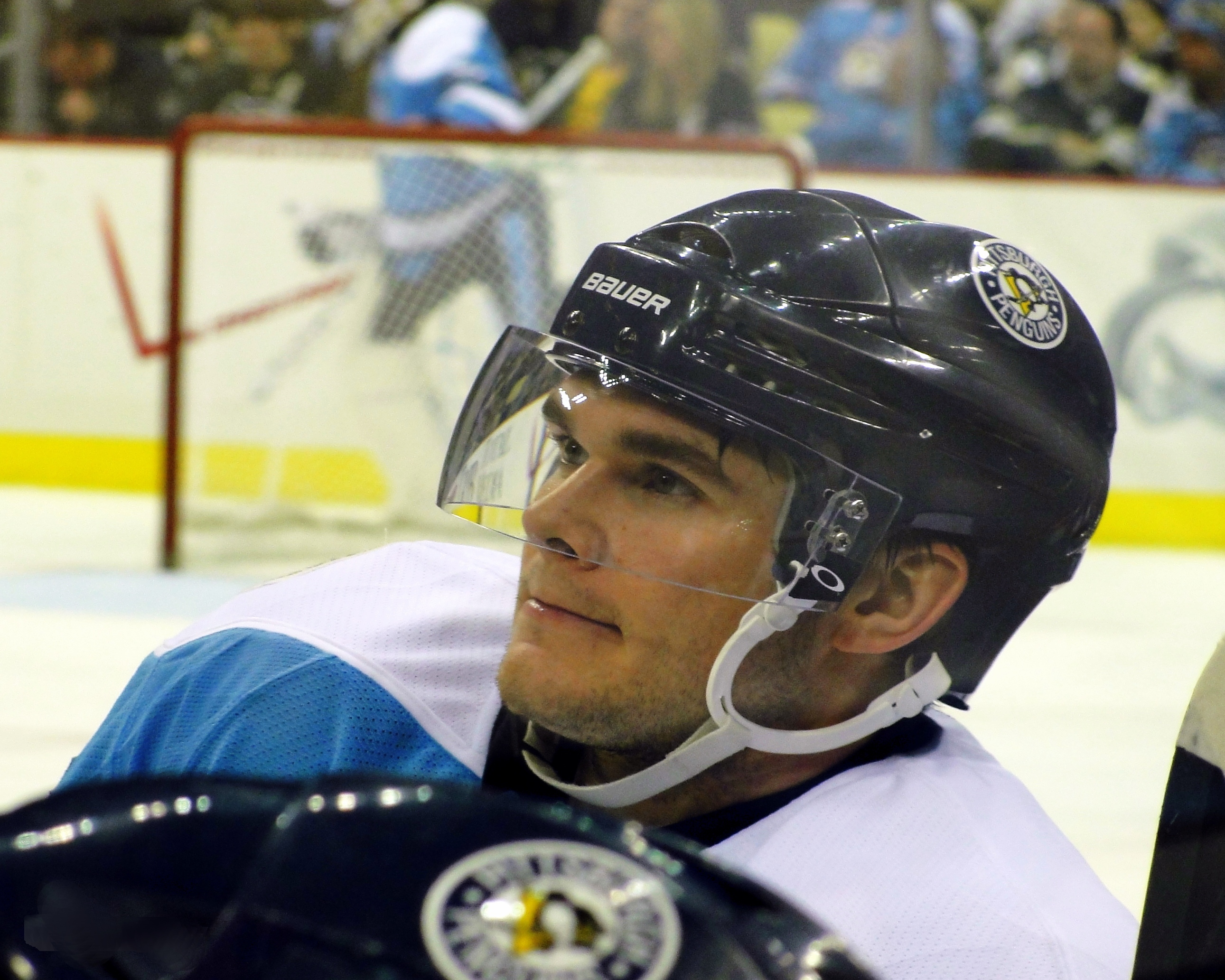 Chris Kunitz of the Pittsburgh Penguins in a game against the Minnesota Wild, January 8, 2011 at Consol Energy Center in Pittsburgh, PA.